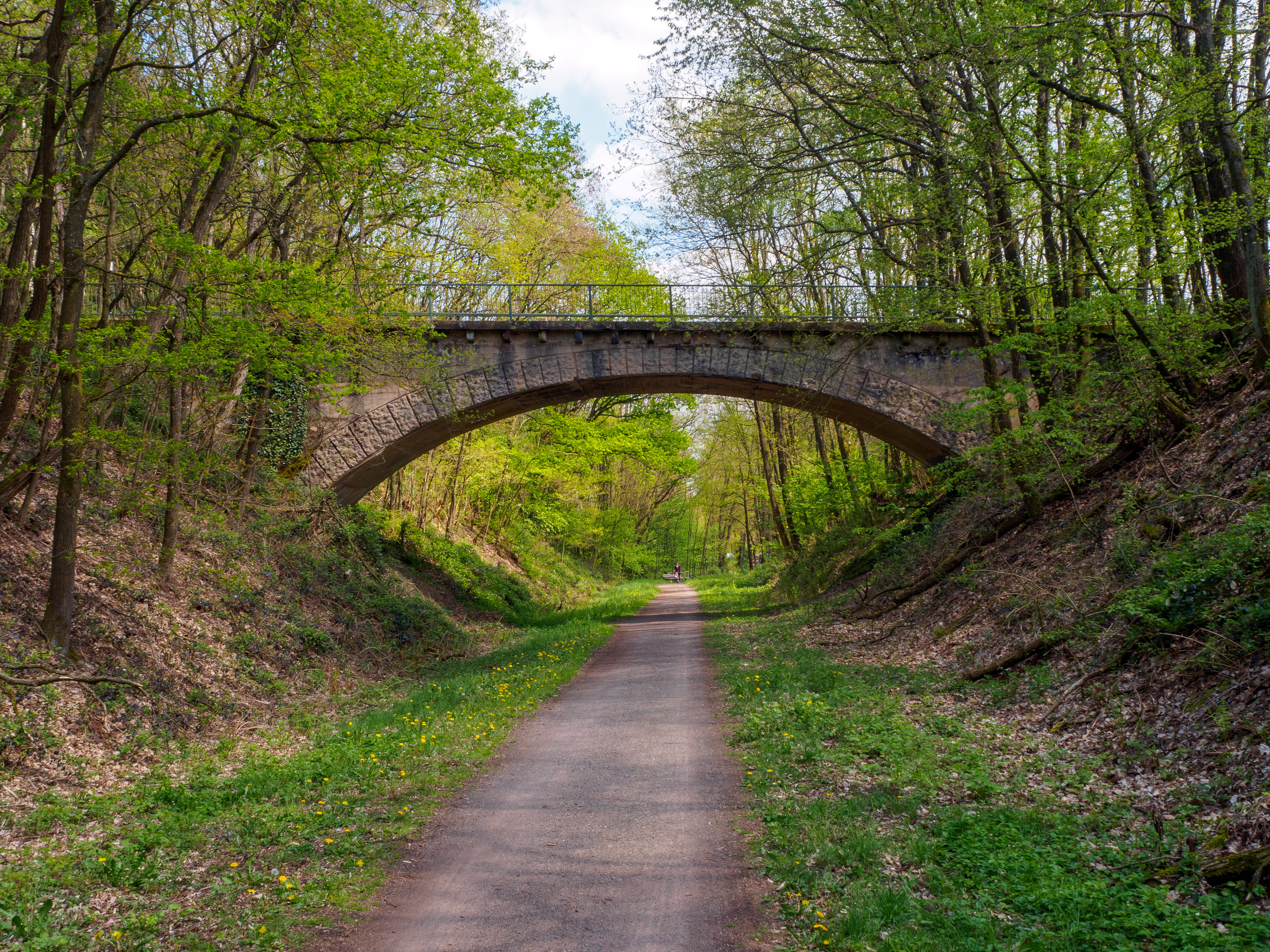 Bridge near the former Glantal railway station Sand